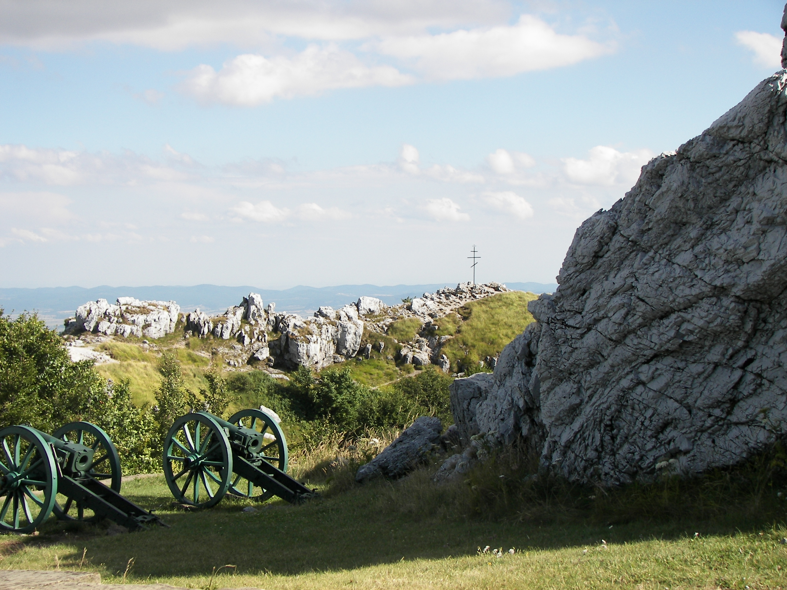 Shipka